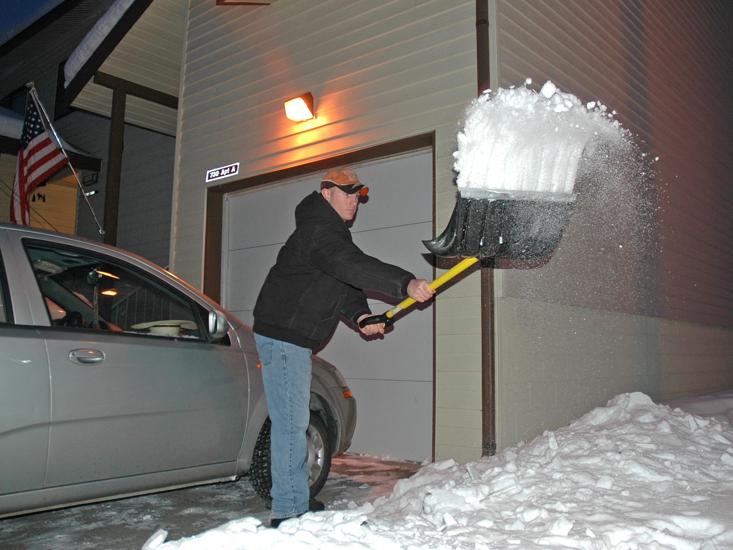 Staff Sgt. Phillip Bridges shovels the driveway of his new home